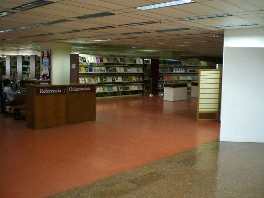 Reference Room, National Library of Venezuela, Caracas. I´m the author of this photo, i take it on April 4, 2008.